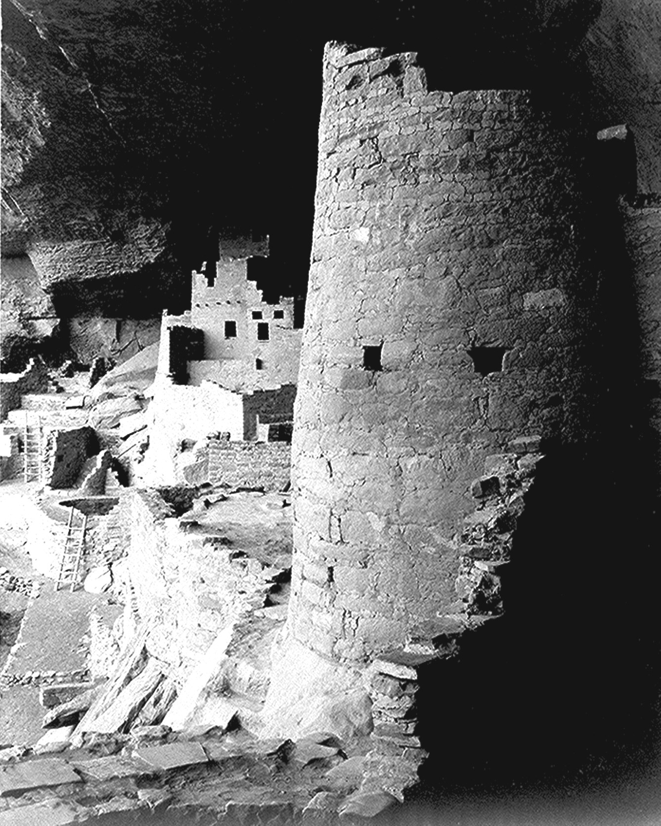 Ansel Adams, 1941, 79-AAJ-3 Cliff Palace, round tower, Mesa Verde In 1941 the National Park Service commissioned noted photographer Ansel Adams to create a photo mural for the Department of the Interior Building in Washington, DC. The theme was to be nature as exemplified and protected in the U.S. National Parks. The project was halted because of World War II and never resumed. The holdings of the National Archives Still Picture Branch include 226 photographs taken for this project, most of them signed and captioned by Adams. Almost all are in the public domain. Licensing "The vast majority of the digital images in the Archival Research Catalog (ARC) are in the public domain. Therefore, no written permission is required to use them. We would appreciate your crediting the National Archives and Records Administration as the original source. For the few images that remain copyrighted, please read the instructions noted in the "Access Restrictions" field of each ARC record." This image is Public Domain